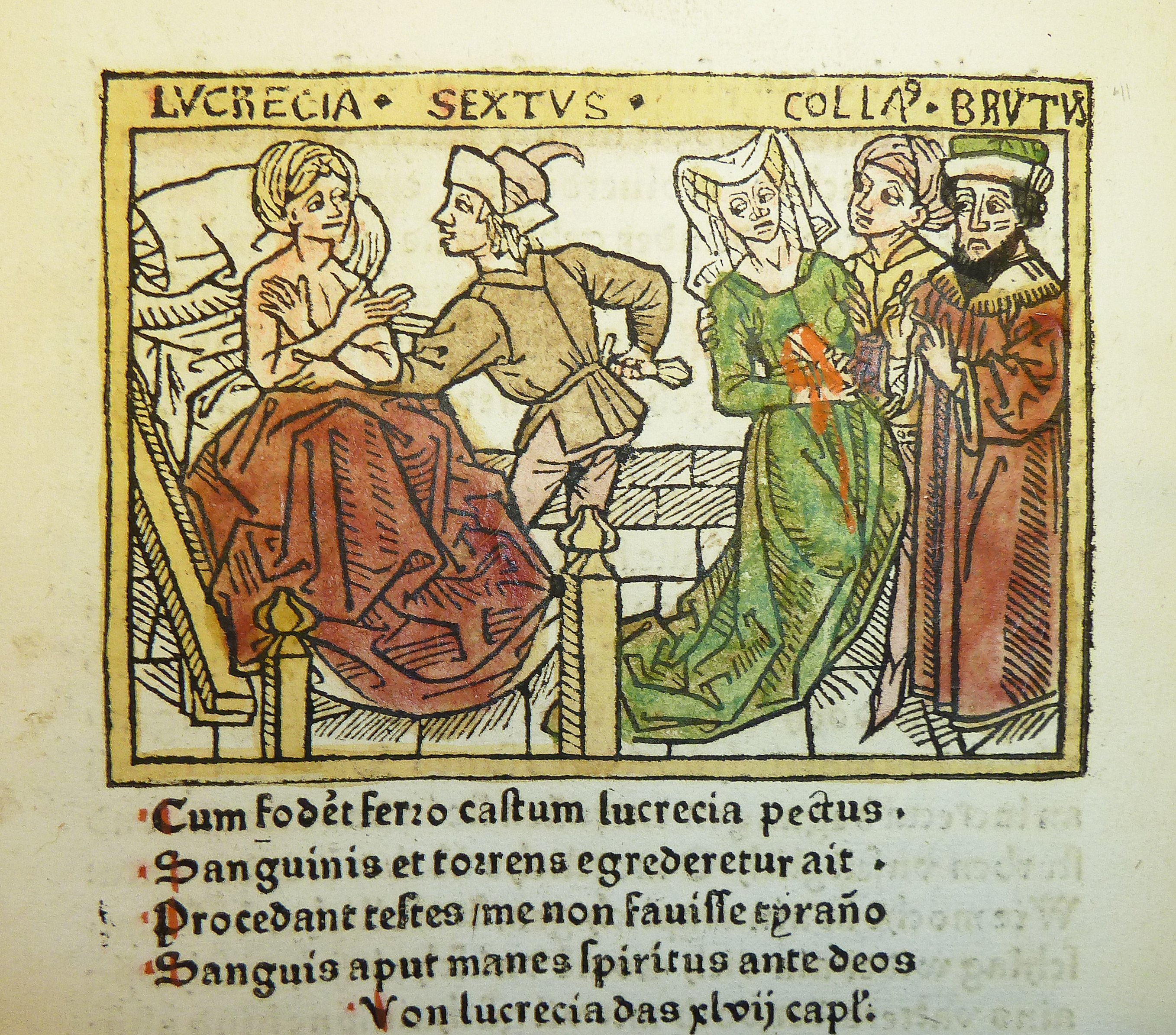 Woodcut illustration (leaf [h]9v, f. lxix) of the rape of Lucretia by Sextus Tarquinius and her subsequent suicide before her husband Lucius Tarquinius Collatinus and Lucius Junius Brutus, hand-colored in red, green, yellow and black, from an incunable German translation by Heinrich Steinhöwel of Giovanni Boccaccio's De mulieribus claris, printed by Johannes Zainer at Ulm ca. 1474 (cf. ISTC ib00720000). One of 76 woodcut illustrations (1 on leaf [e]8v dated 1473), each 80 x 110 mm., depicting scenes from the life of the women chronicled (for a full list of subjects, cf. W.L. Schreiber, Handbuch der Holz- und Metallschnitte des XV. Jahrhunderts (Nendeln: Kraus Reprints, 1969), no. 3506). "Pour la première moitie le nom se trouve inscrit à côte de la tête de chaque femme, pour le reste il es ajouté entre les deux réglettes. Il n'y en a que trois, qui n'ont qu'un seul trait carré."--Schreiber. Established form: Zainer, Johannes, ‡d d. 1541?. Established form: Lucretia. Established form: Brutus, Lucius Junius. Penn Libraries call number: Inc B-720 All images from this book Penn Libraries catalog record